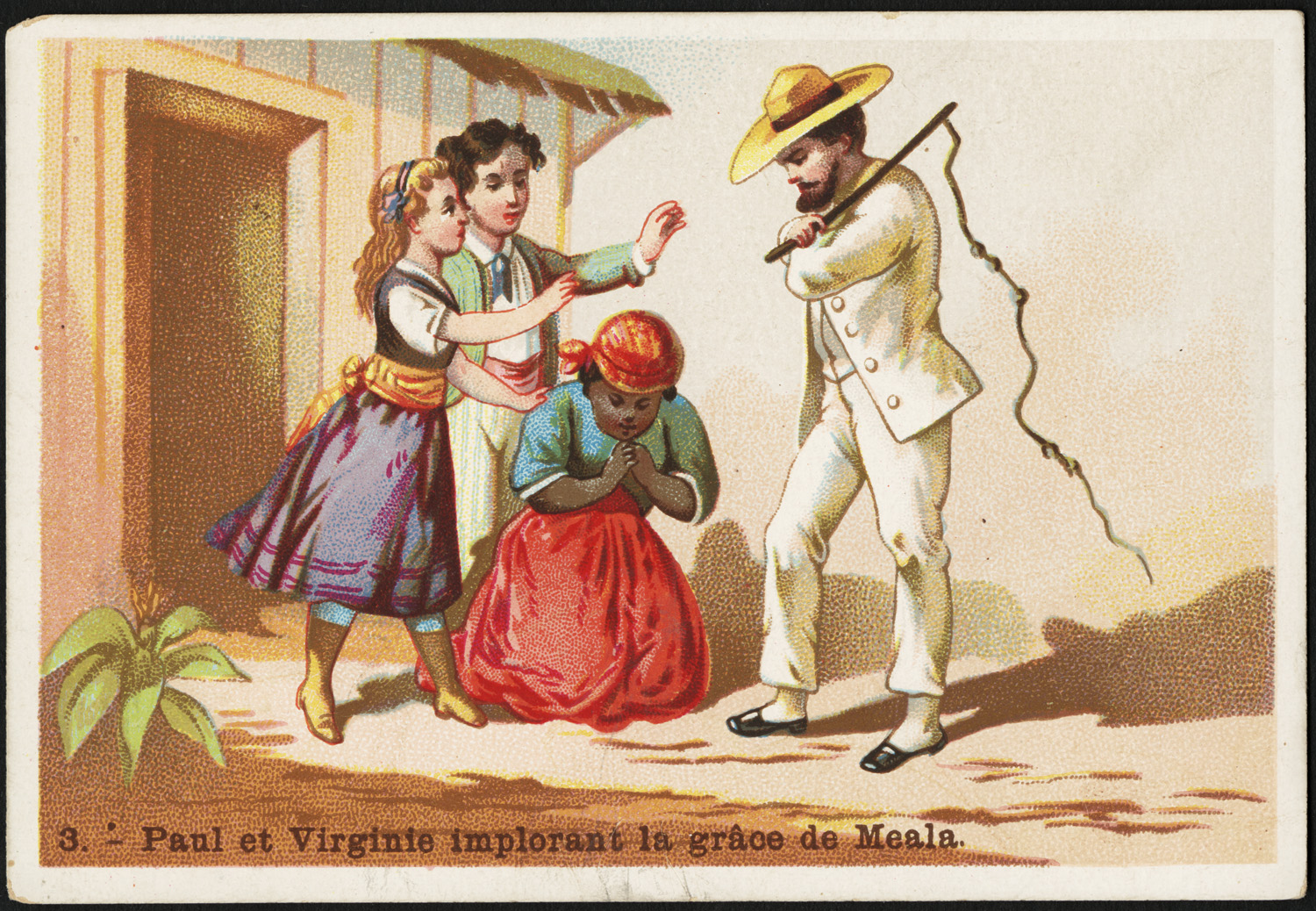 File name: 10_03_002815a Binder label: Stock Cards Title: 3 - Paul et Virginie implorant la grace de Meala. [front] Date issued: 1870-1900 (approximate) Physical description: 1 print : chromolithograph ; 8 x 12 cm. Genre: Advertising cards Subject: Men; Women; Girls; Whips Notes: Title from item. Stamped on item verso: Given Feb 28, 1930 by Wm. S. Appleton Collection: 19th Century American Trade Cards Location: Boston Public Library, Print Department Rights: No known restrictions.